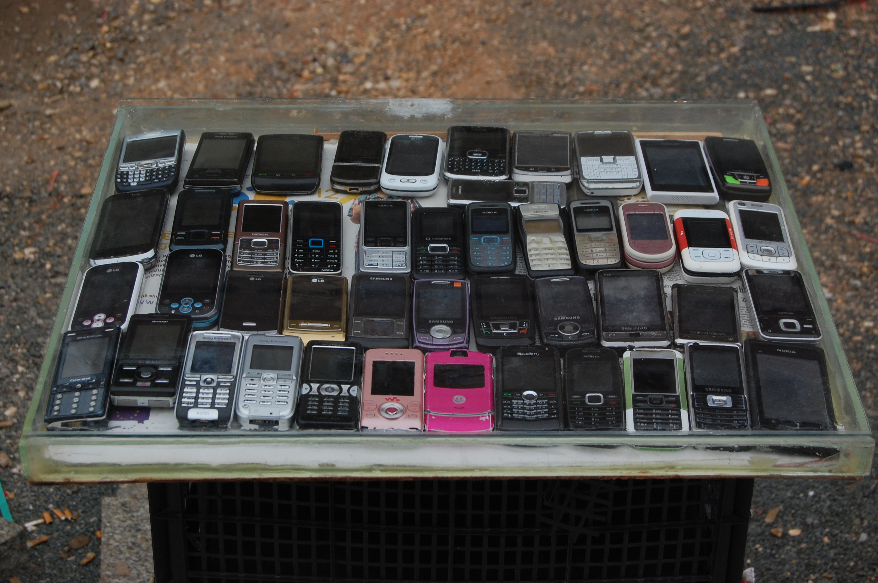 Street stall selling second-hand mobile phones on Bulevardi Nëna Tereze (Mother Teresa Boulevard), in Pristina, Kosovo.